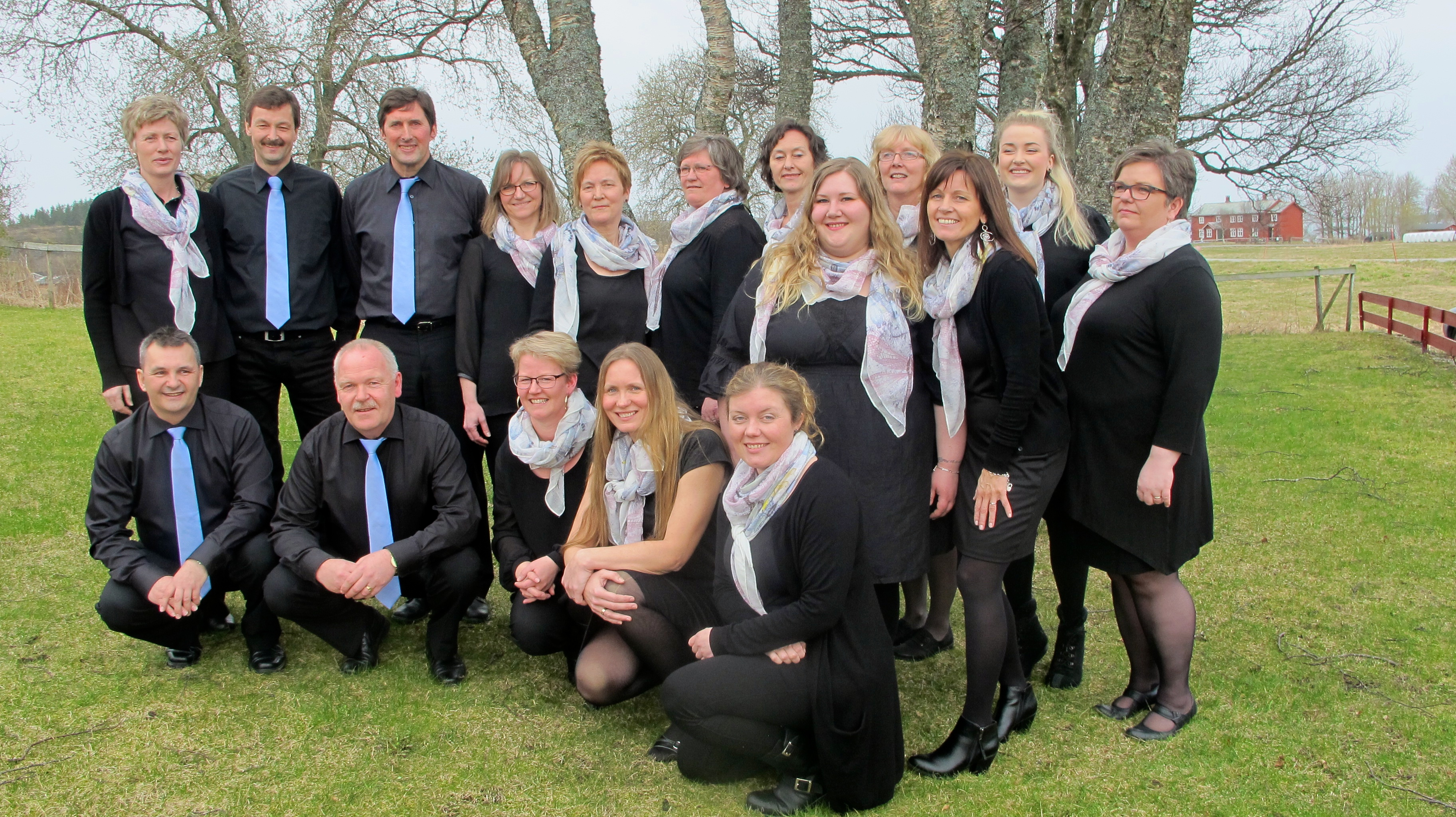 The Norwegian choir Onøy/Lurøy sangkor in 2015Norsk bokmål: Onøy/Lurøy sangkor (blandet kor fra Helgeland, Norge) i 2015